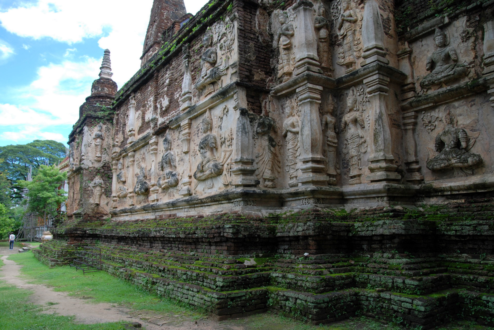 Wat Chet Yot (literally: Seven Spired Temple; Thai script:วัดเจ็ดยอด) Stucco reliefs on the outer wall of the Maha Chedi depicting devas.